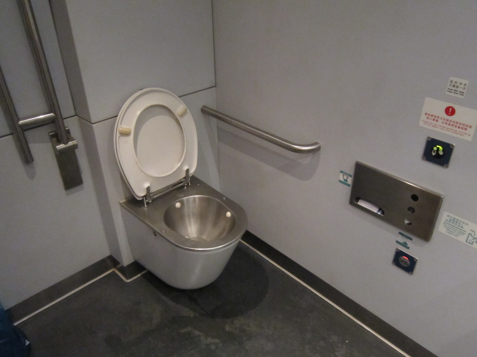 Disabled toilet inside CRH3C train中文（香港）: CRH3C型和諧號列車殘廁